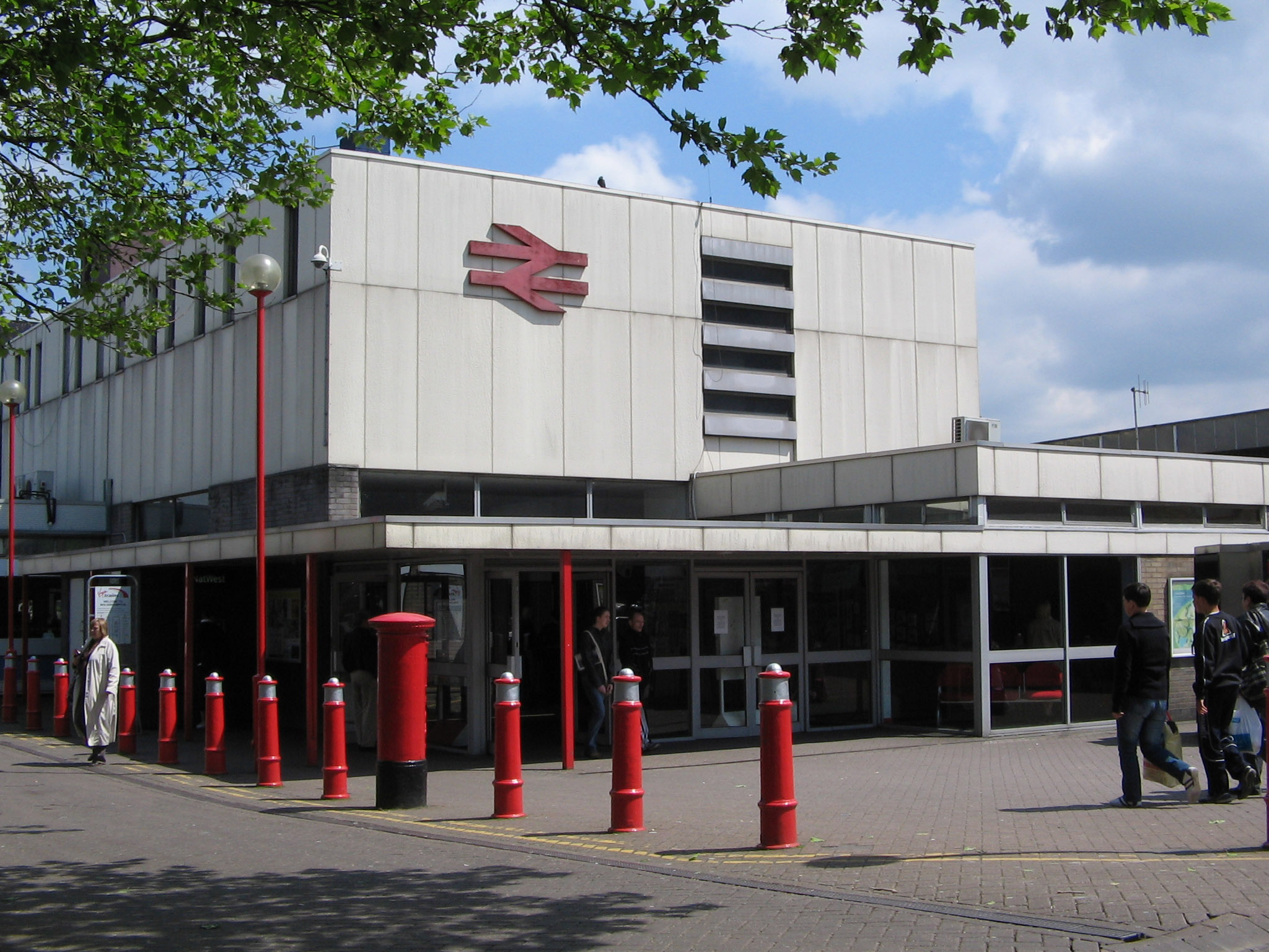 Wolverhampton station entrance